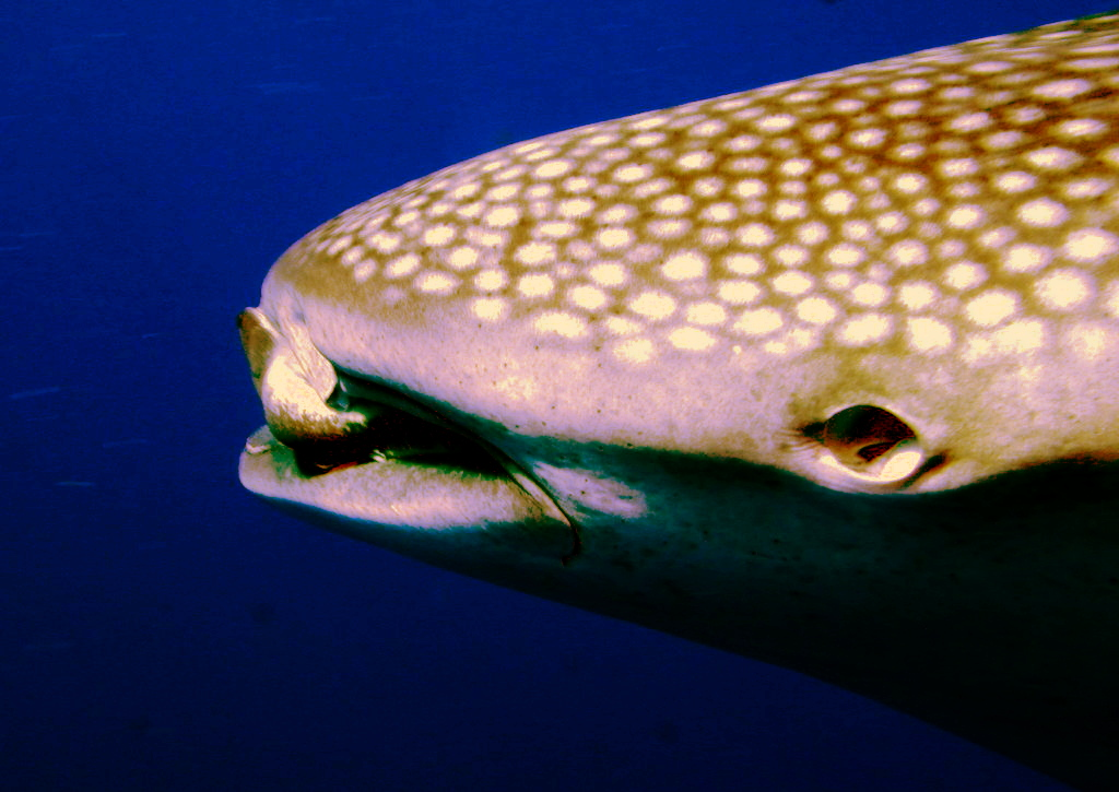 Remora in whaleshark's mouth